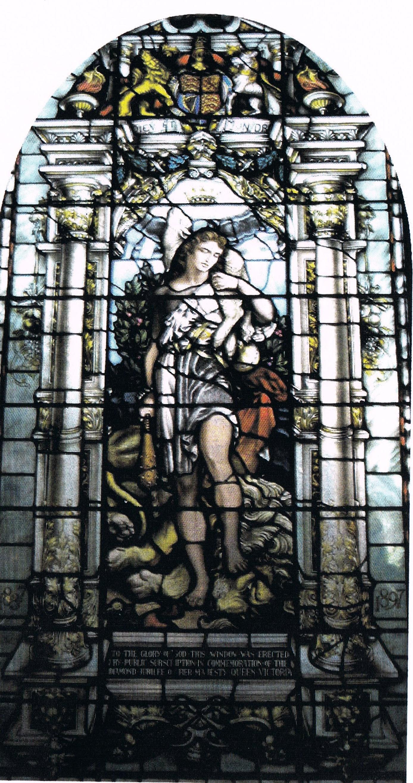 Photograph of window in the Chancel of St Ann's Church, Manchester